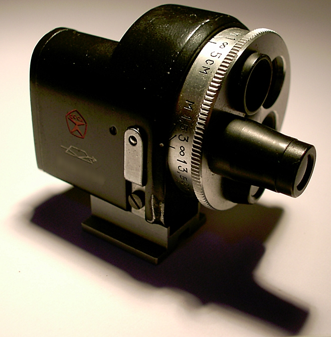 A Zorki turret rangefinder. The red star and "CCCP" that is stamped into the side is an indication that it is a first-class product (said to be pretty rare). Taken and released into the public domain by User:Kallemax.